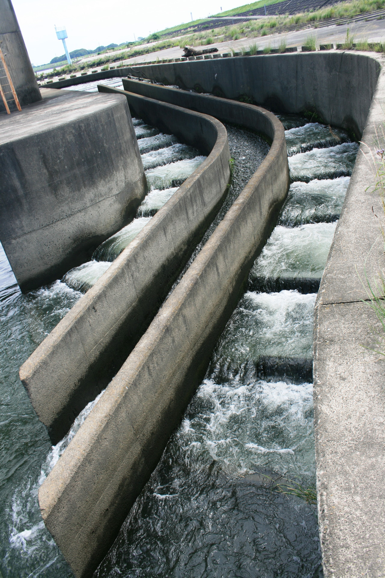 Fish ladder in Kiso River